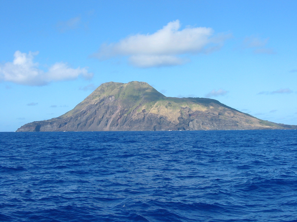 Sarigan Island (Northern Mariana Islands), seen from the east